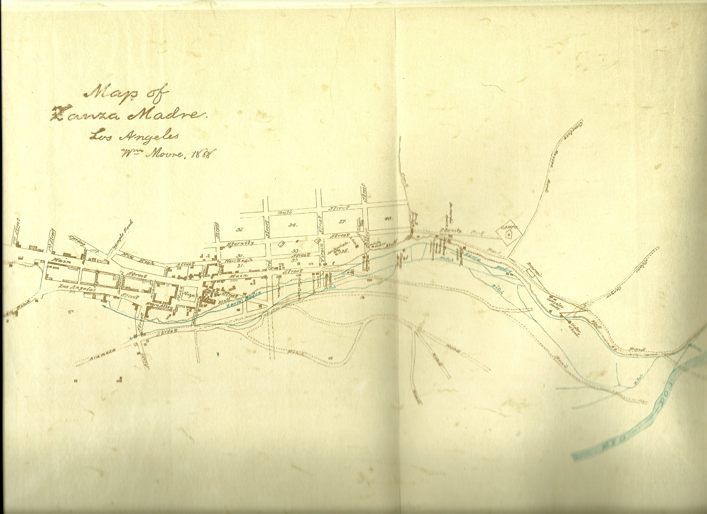 Map of the Zanja Madre in the Pueblo de Los Angeles. The Spanish and Mexican colonial era's water supply canal for the town and surrounding fields. Still supplied needs of early American Los Angeles, diagram drawn in 1888.